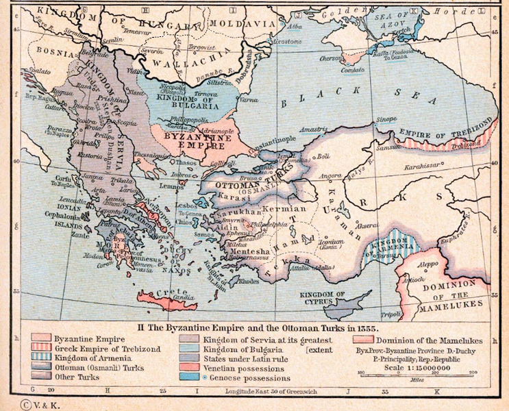 Map of Balkans, Byzantine Empire and Anatolia, 1355. -- Velhagen & Klasing atlas of history, Berlin 1931 (english version)